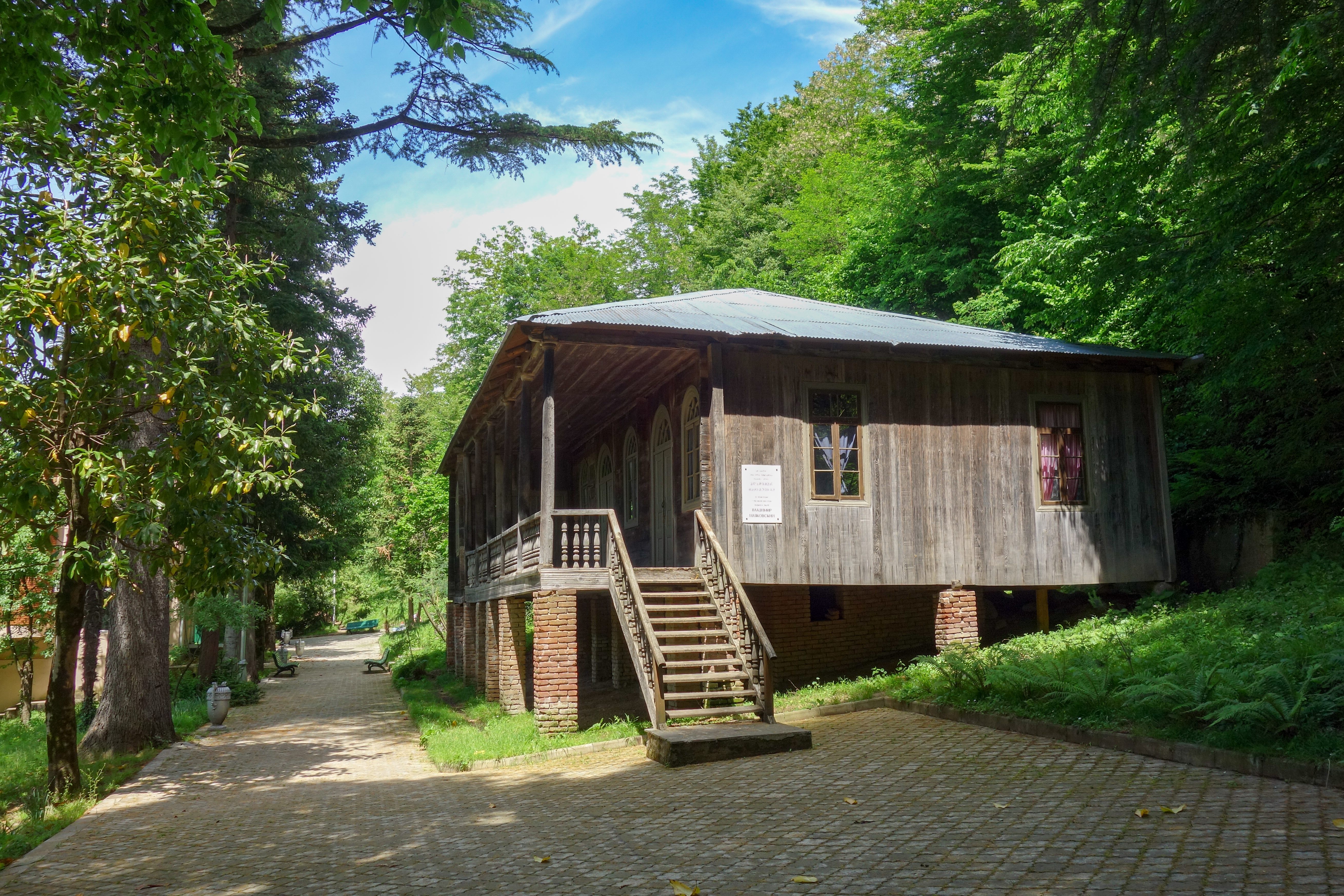 The house, where V. Mayakovsky was born (Baghdati, Imereti, Georgia)